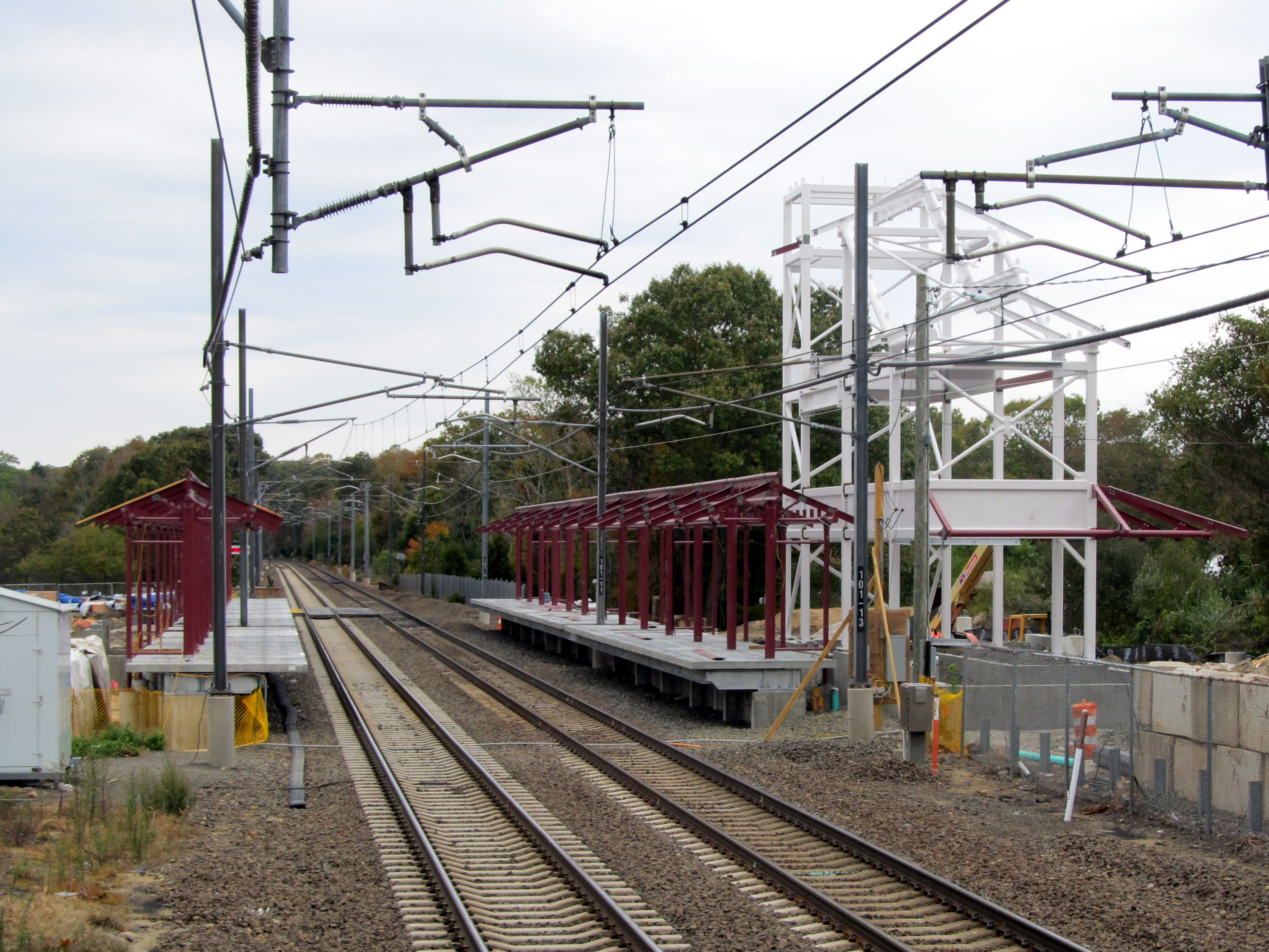 Construction of Westbrook station in October 2012, as viewed from Essex Road (CT Route 153)